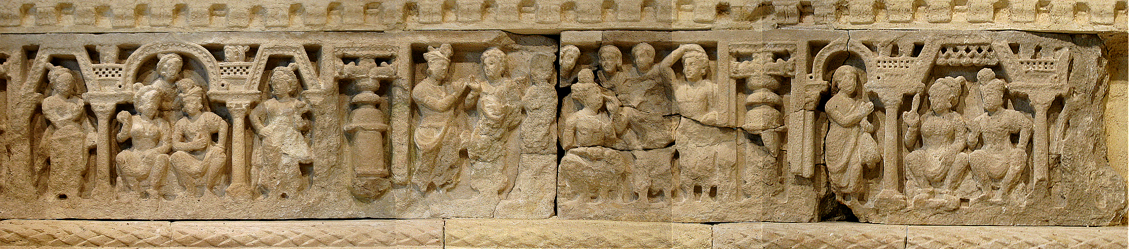 Indian scene of Stupa C1. Afghanistan: Hadda. Musée Guimet.